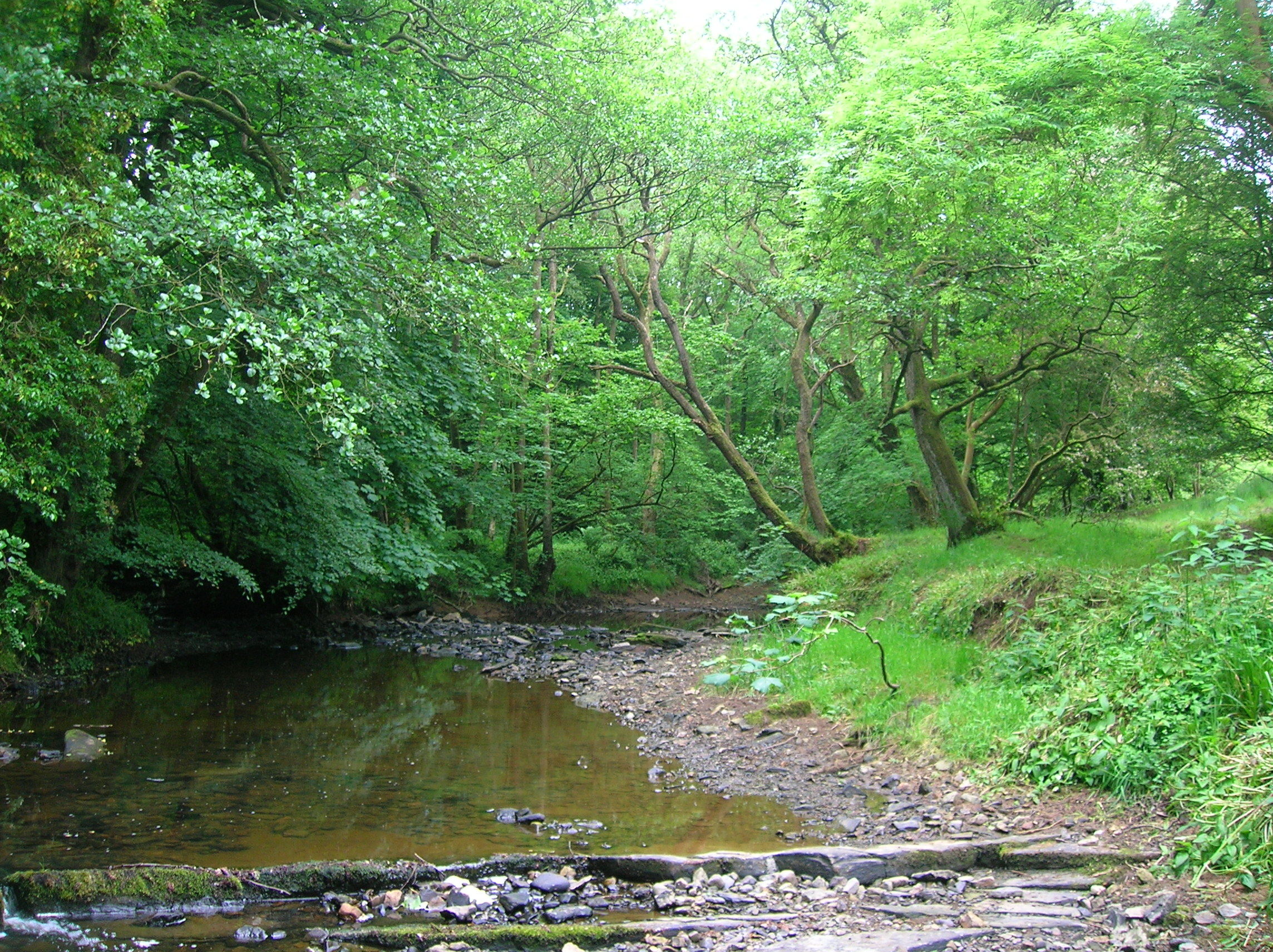 Cessnock Water, Ayrshire, Scotland.